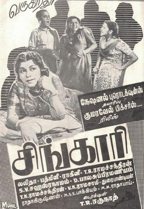 Poster for the 1951 South Indian Tamil film Singari